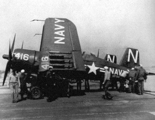 A U.S. Navy Vought F4U-4 Corsair of Fighter Squadron VF-94 "Tough Kitties" aboard the aircraft carrier USS Philippine Sea (CVA-47). VF-94 was assigned to Carrier Air Group 9 (CVG-9) aboard the Philippine Sea for a deployment to the Western Pacific and the Korean War from 15 December 1952 to 14 August 1953.